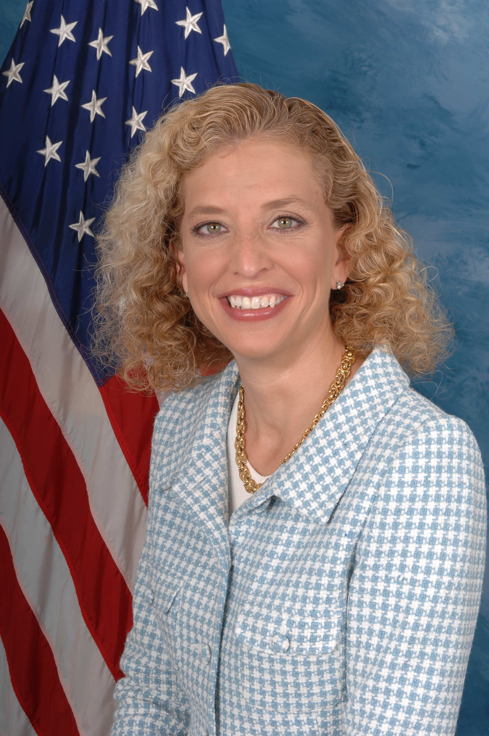 Debbie Wasserman Schultz, member of the United States House of Representatives.